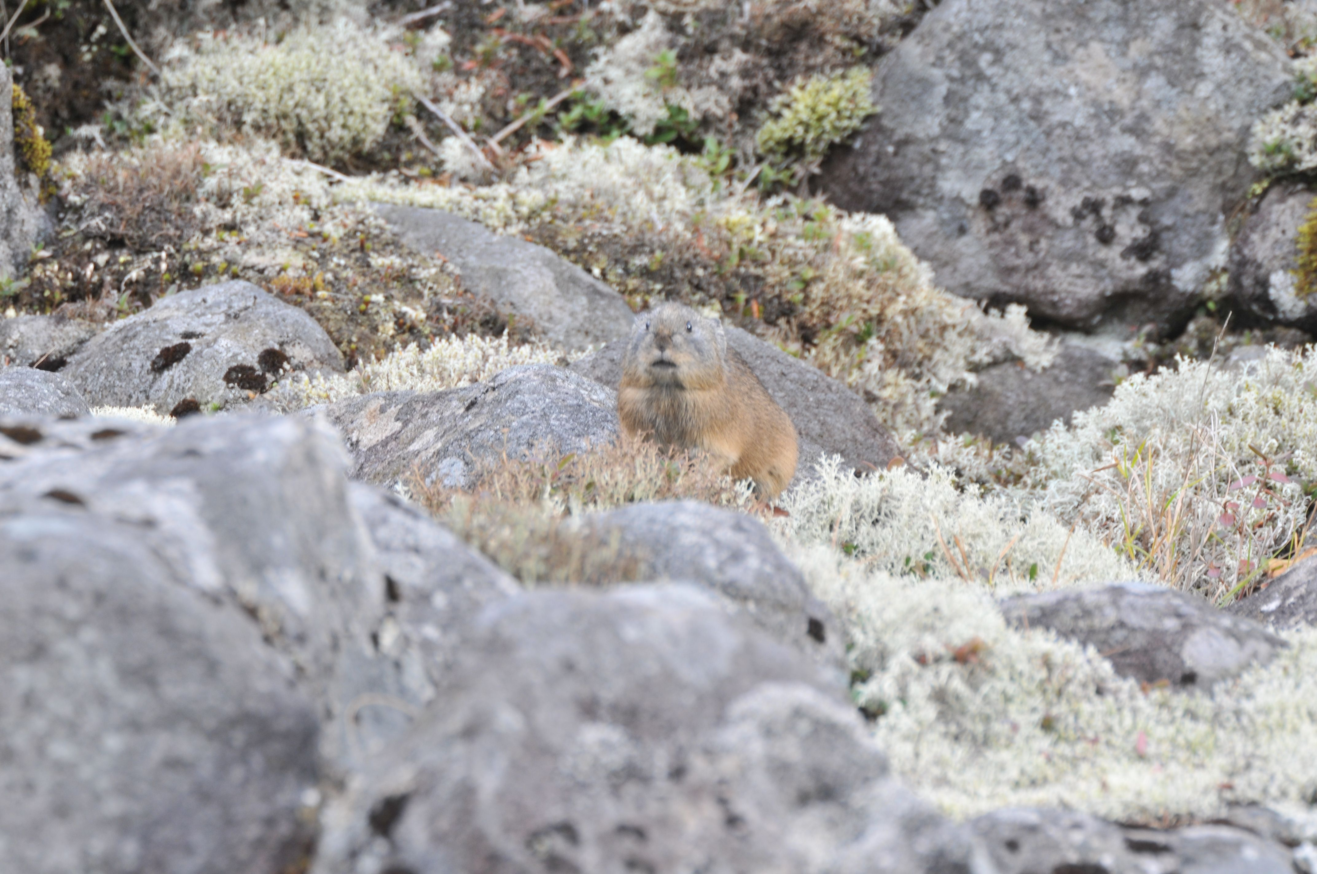 Ochotona Hyperborea yesoensis, Shikaoi, Hokkaido, Japan.